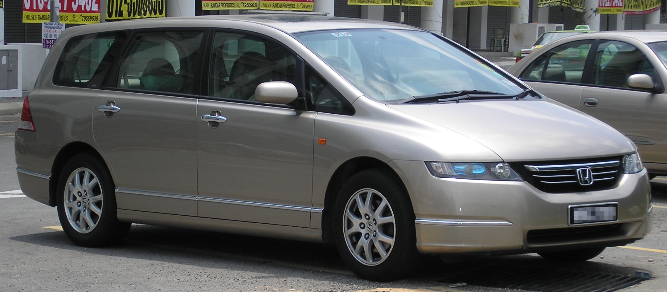 Front quarter view of a third generation Honda Odyssey (JDM) in Serdang, Selangor, Malaysia.